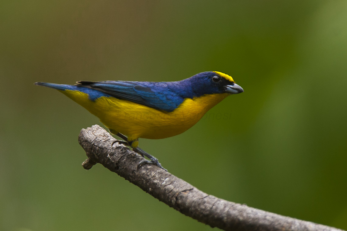 Thick-billed Euphonia - Panama_H8O8486